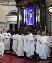 Chrism Mass at Holy Redeemer Cathedral, Belize City